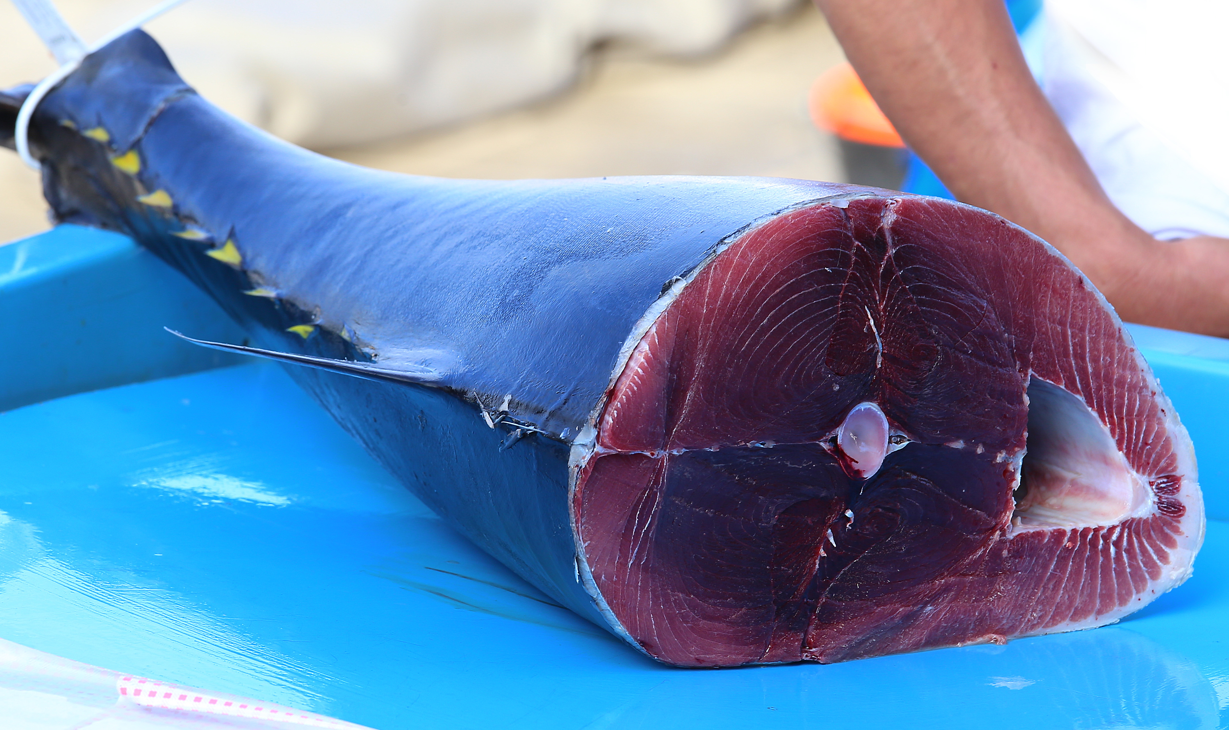 Body of a fresh tuna on Marseille fish market.